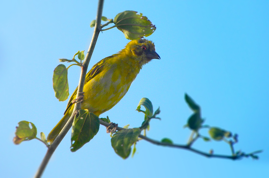 al-7bbak